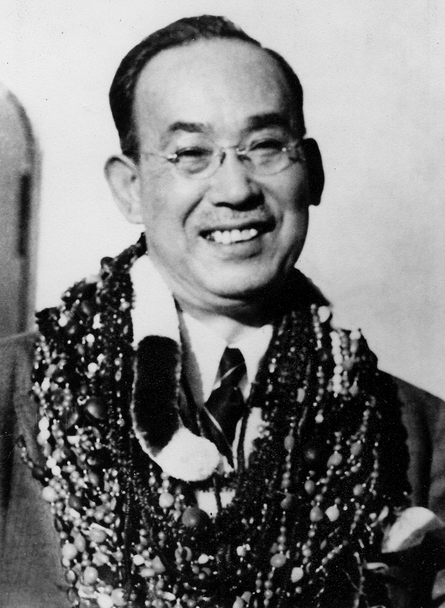 Picture of Chujiro Hayashi